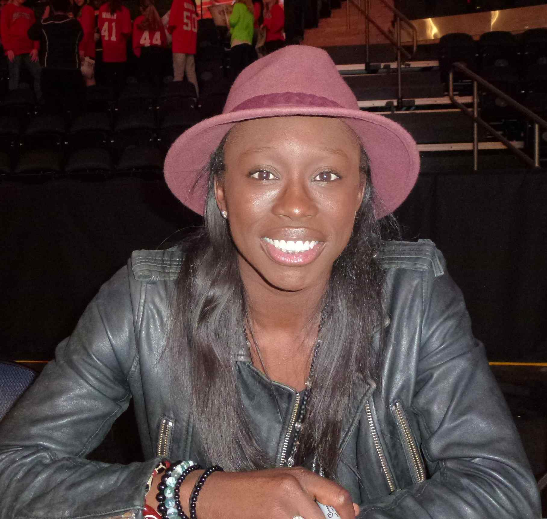 Essence Carson at the 2013 Maggie Dixon Class in Madison Square Garden